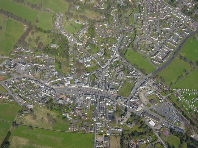 Aerial View of Moffat. Moffat from around 5000 feet taken during a cross country flight by paraglider having taken off at Tinto Hill, South Lanarkshire.